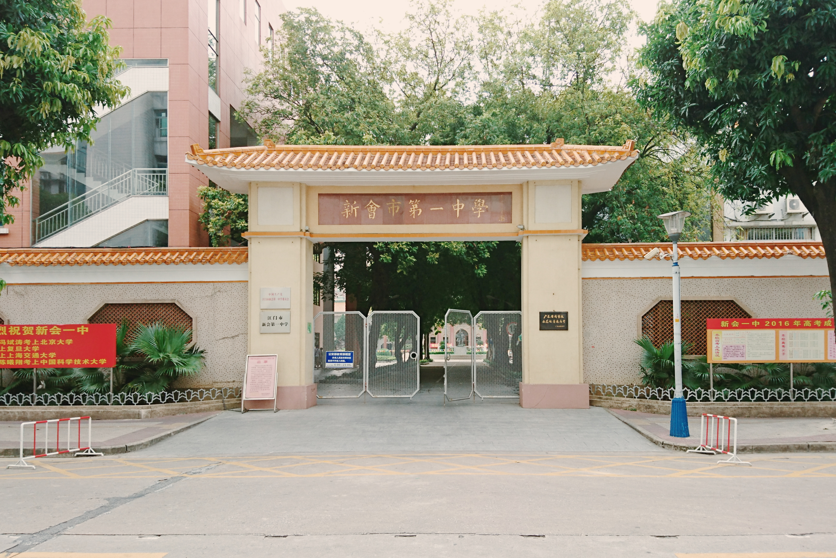 The main entrance of Xinhui No.1 Middle School